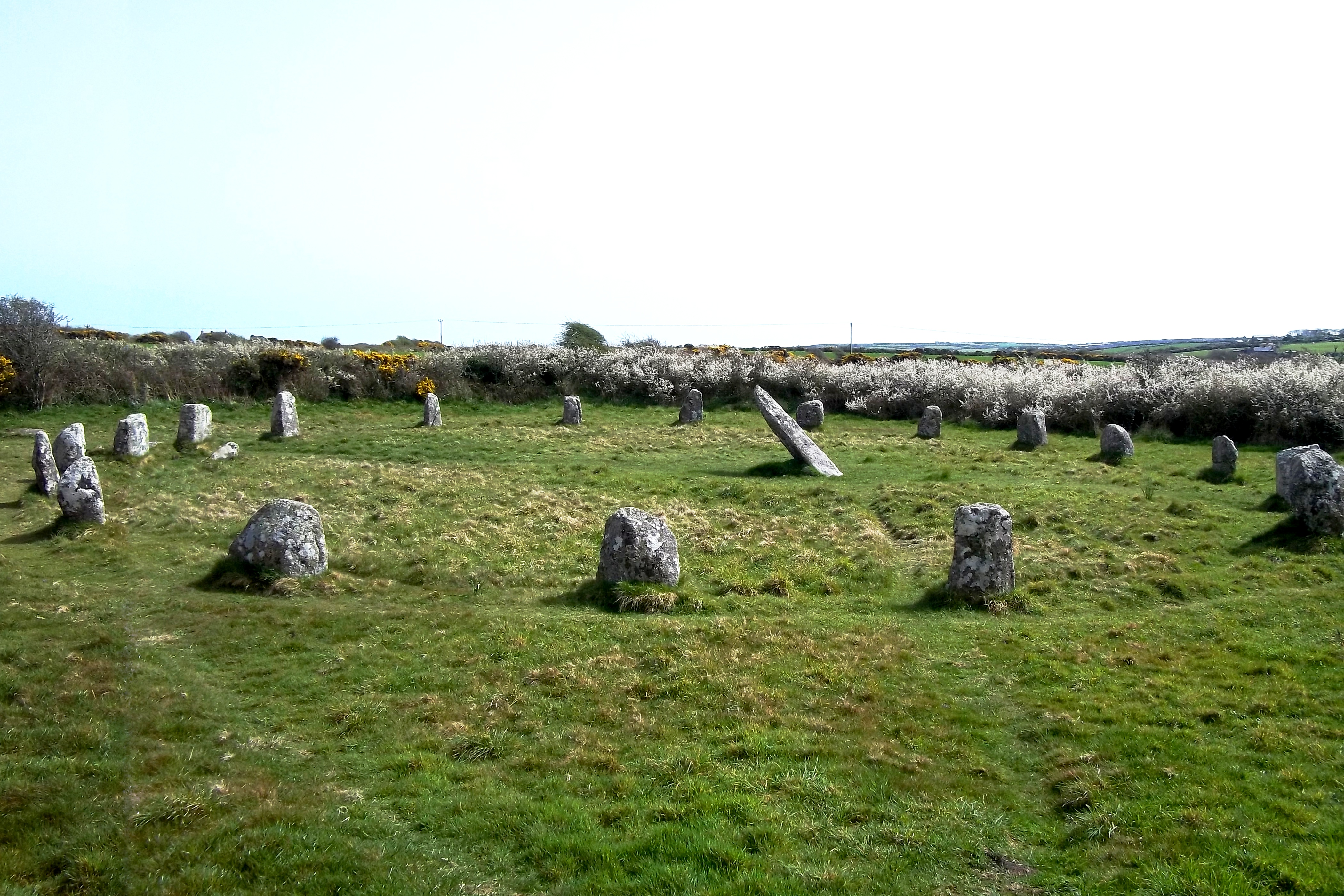 Boscawen-Un stone circle, six kilometres west of Penzance, Cornwall, England. Two photographs merged together to show the entire stone circle.